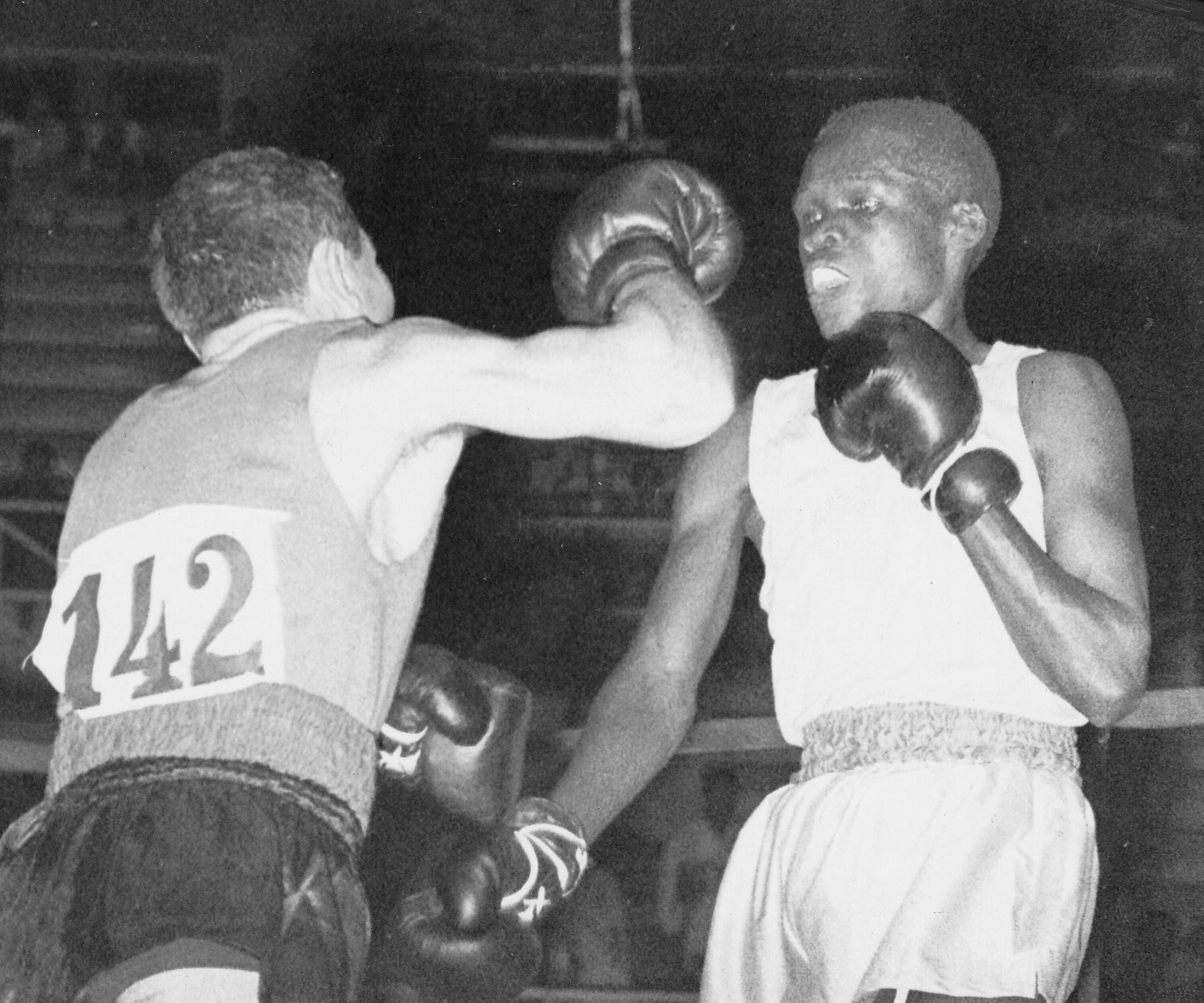 Paolo Curcetti (left) vs. Frank Kisekka at the Rome Olympics